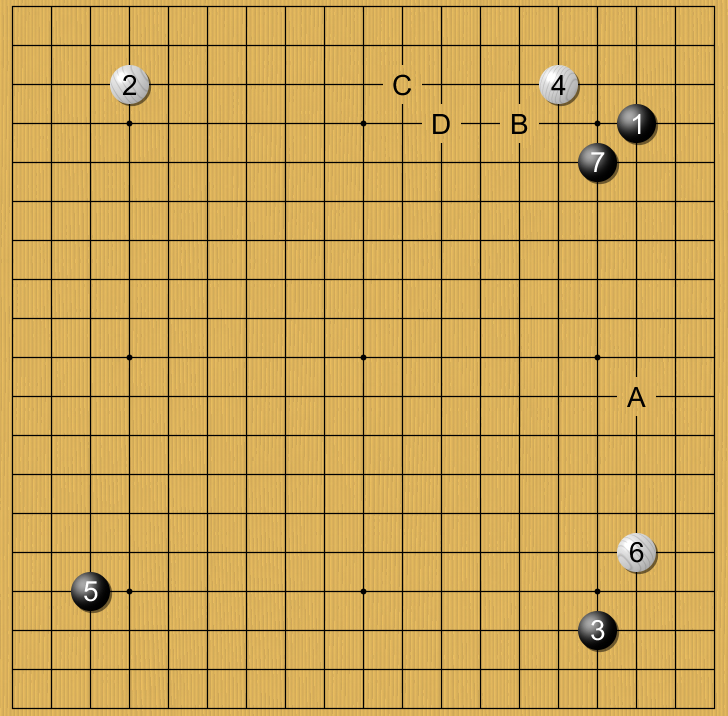 Shusaku fuseki